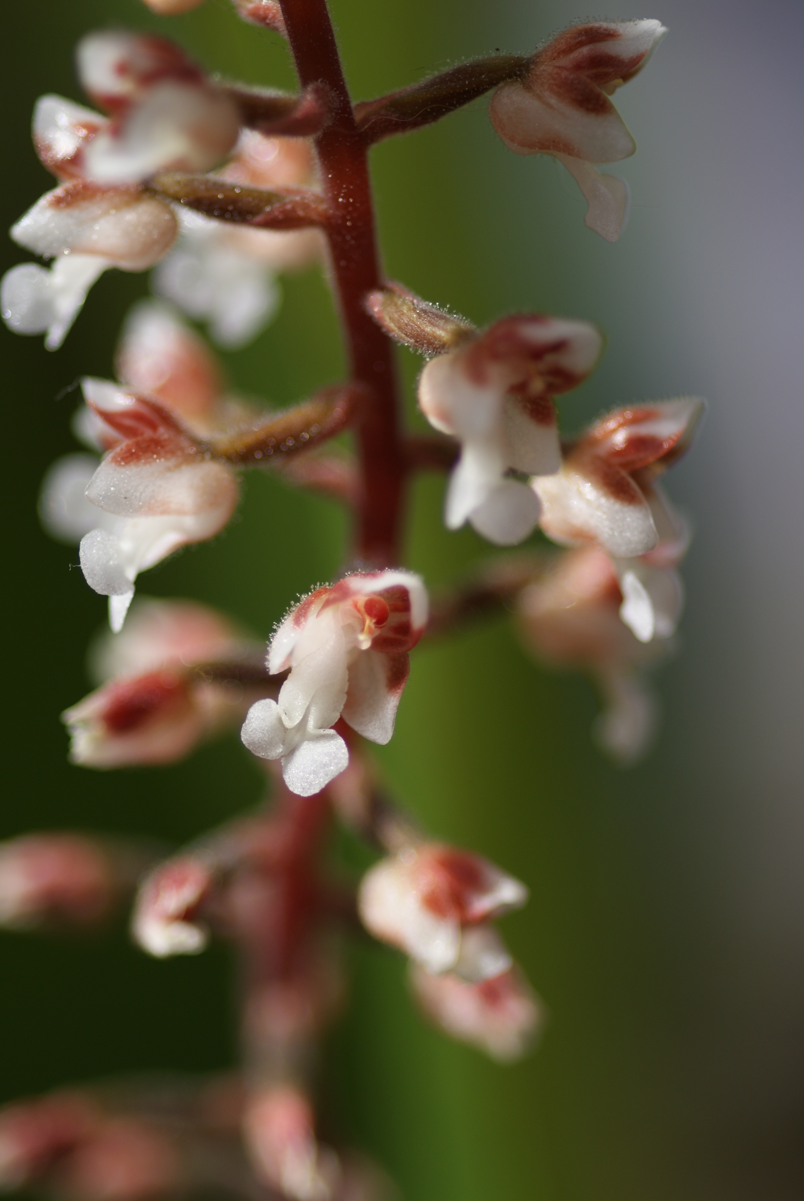 Dossinia marmorata flowers